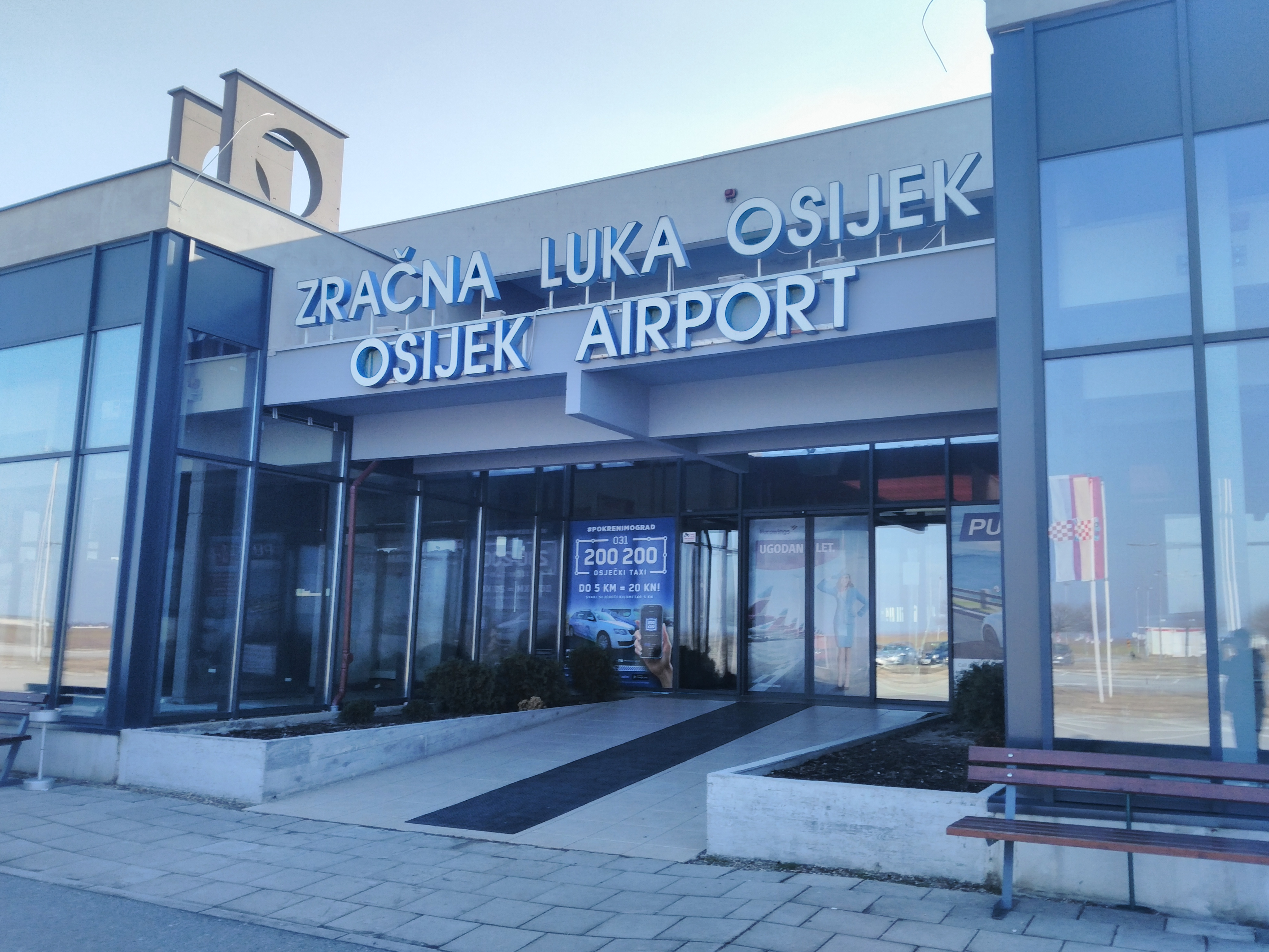 Osijek Airport